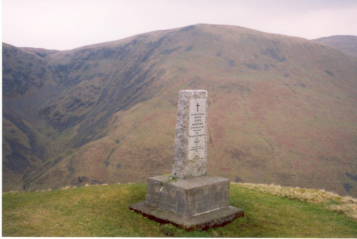 The Devil's Beef Tub in southwest Scotland, and the monument to a slain covenanter.